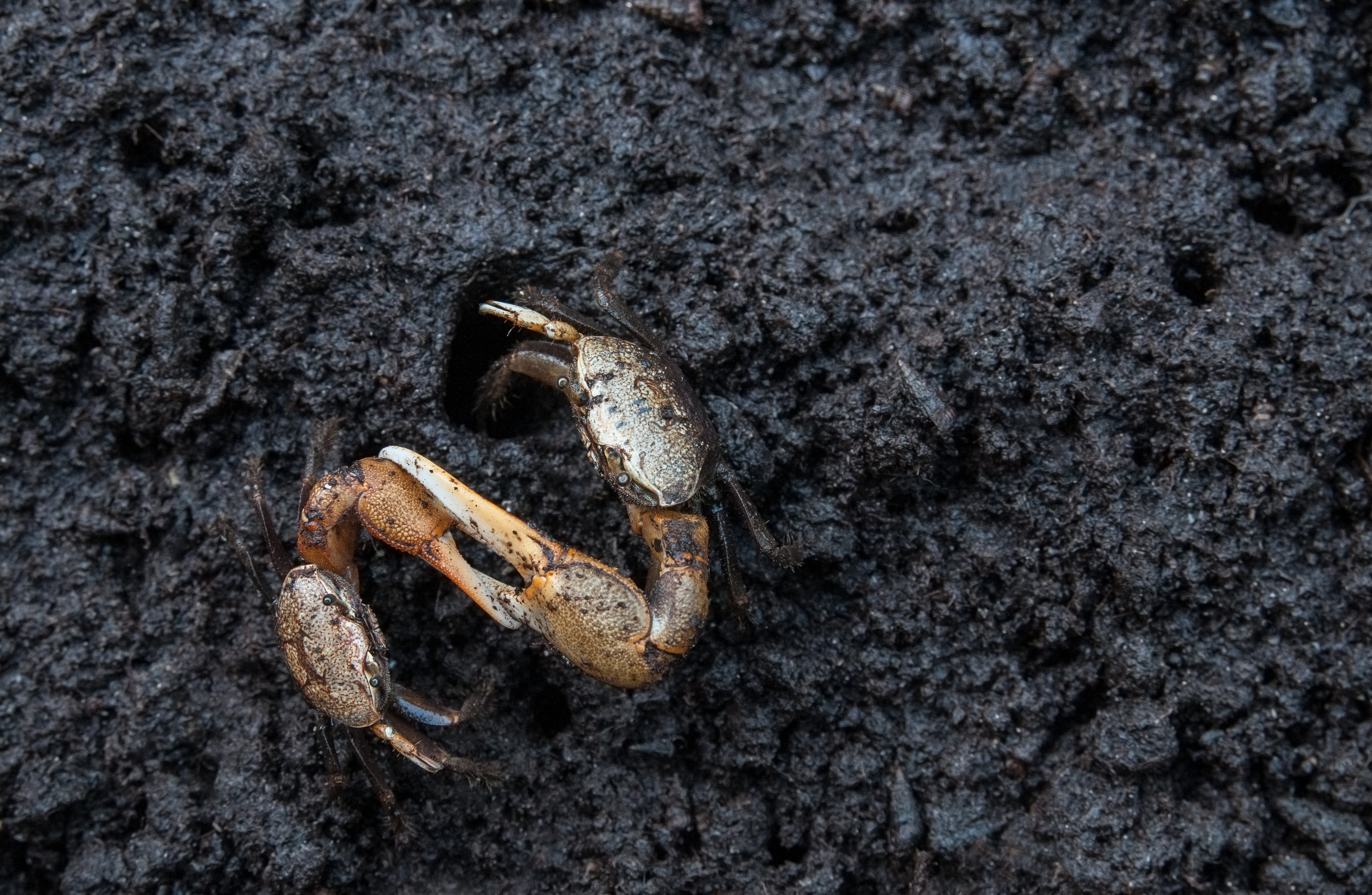 Uca cumulata[1] fighting in La Restinga